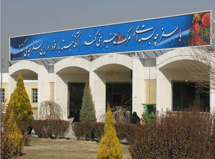 Baghrezvan cemetery (at Isfahan)